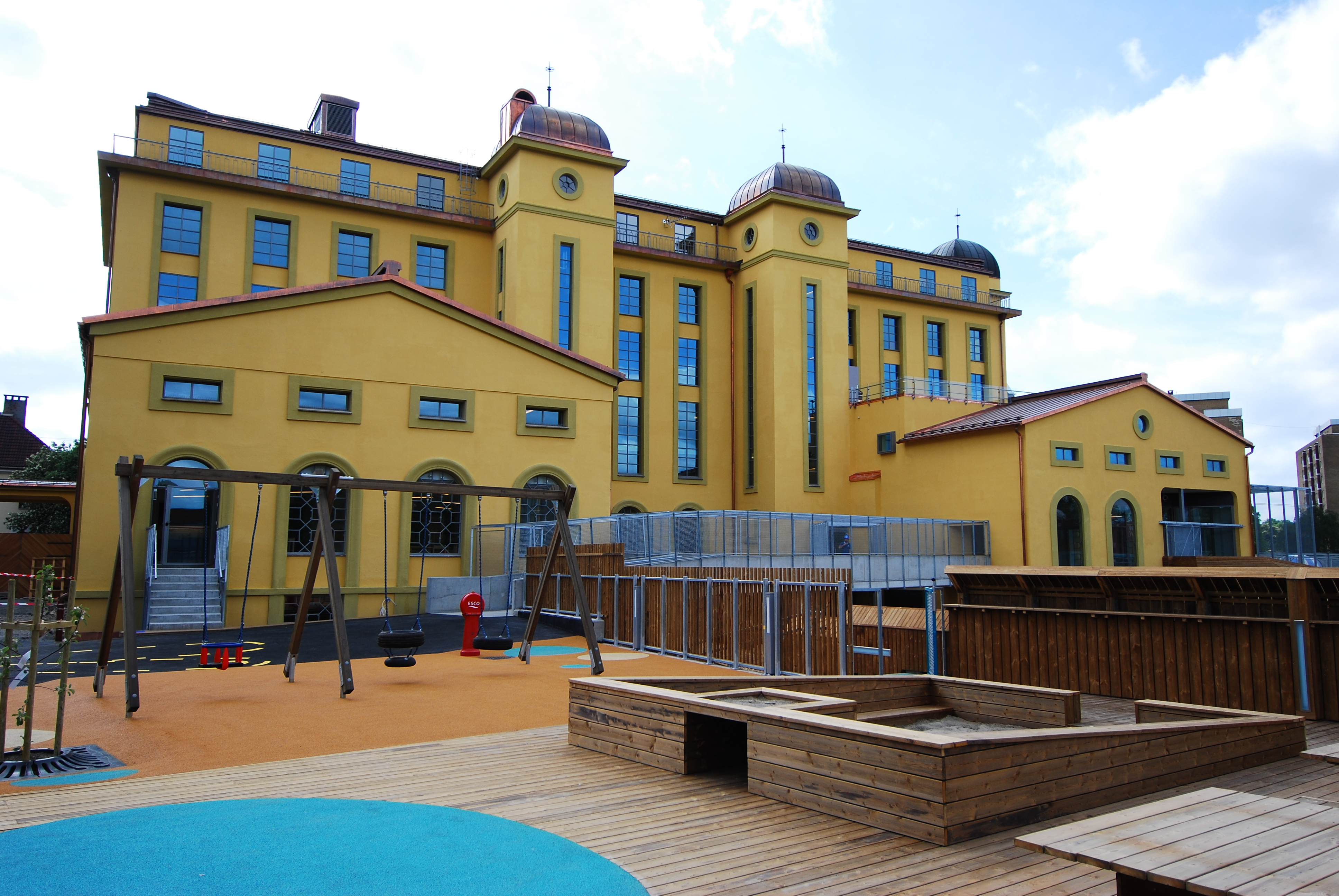 Margarinfabrikken barnehage, Stavangergata. 40/42, 0467 Oslo, Norway, in june 2010